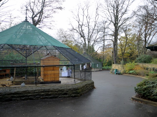 Aviaries, Saltwell Park The two aviaries were restored to their original state and house a variety of ornamental birds and small mammals. A big attraction for child visitors.